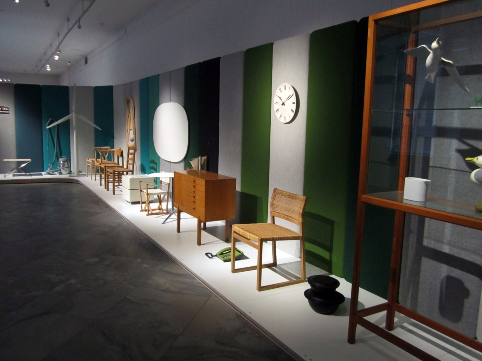 Furniture on display at Designmuseum Danmark